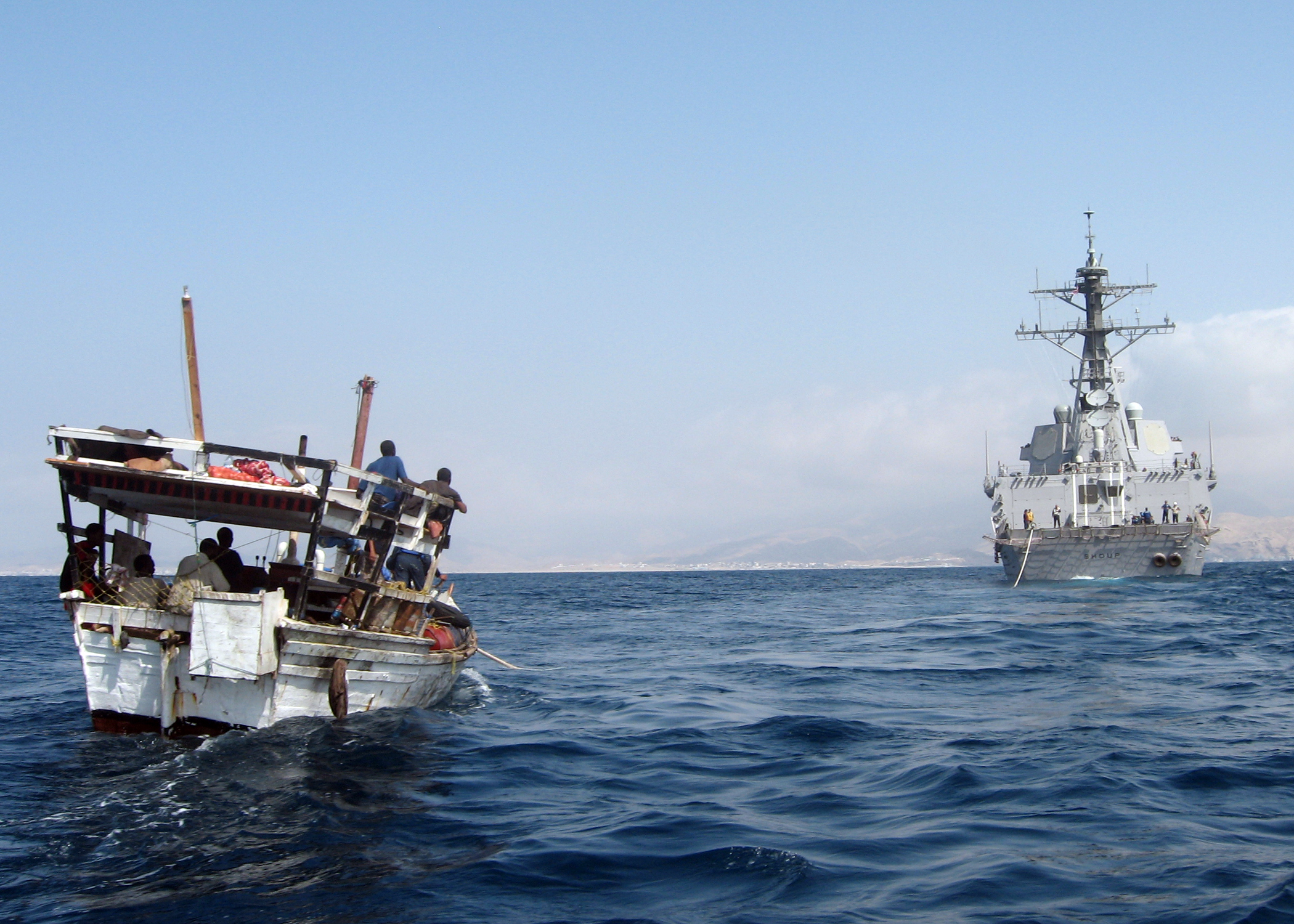 080506-O-9999X-002 GULF OF ADEN (May 06, 2008) The guided-missile destroyer USS Shoup (DDG 86) tows the 15-meter dhow, Dunia, after the boat experienced engine problems leaving it unable to operate at sea. The Military Sealift Command fleet replenishment oiler USNS Kanawha (T-AO 196) and Shoup responded to the ship in distress the boat to Yemeni territorial waters where it was met by a Yemeni tug. Kanawha and Shoup also provided the dhow's crew with food, water and medical support. Coalition forces have a longstanding tradition of helping mariners in distress by providing medical assistance, engineering assistance as well as search and rescue.